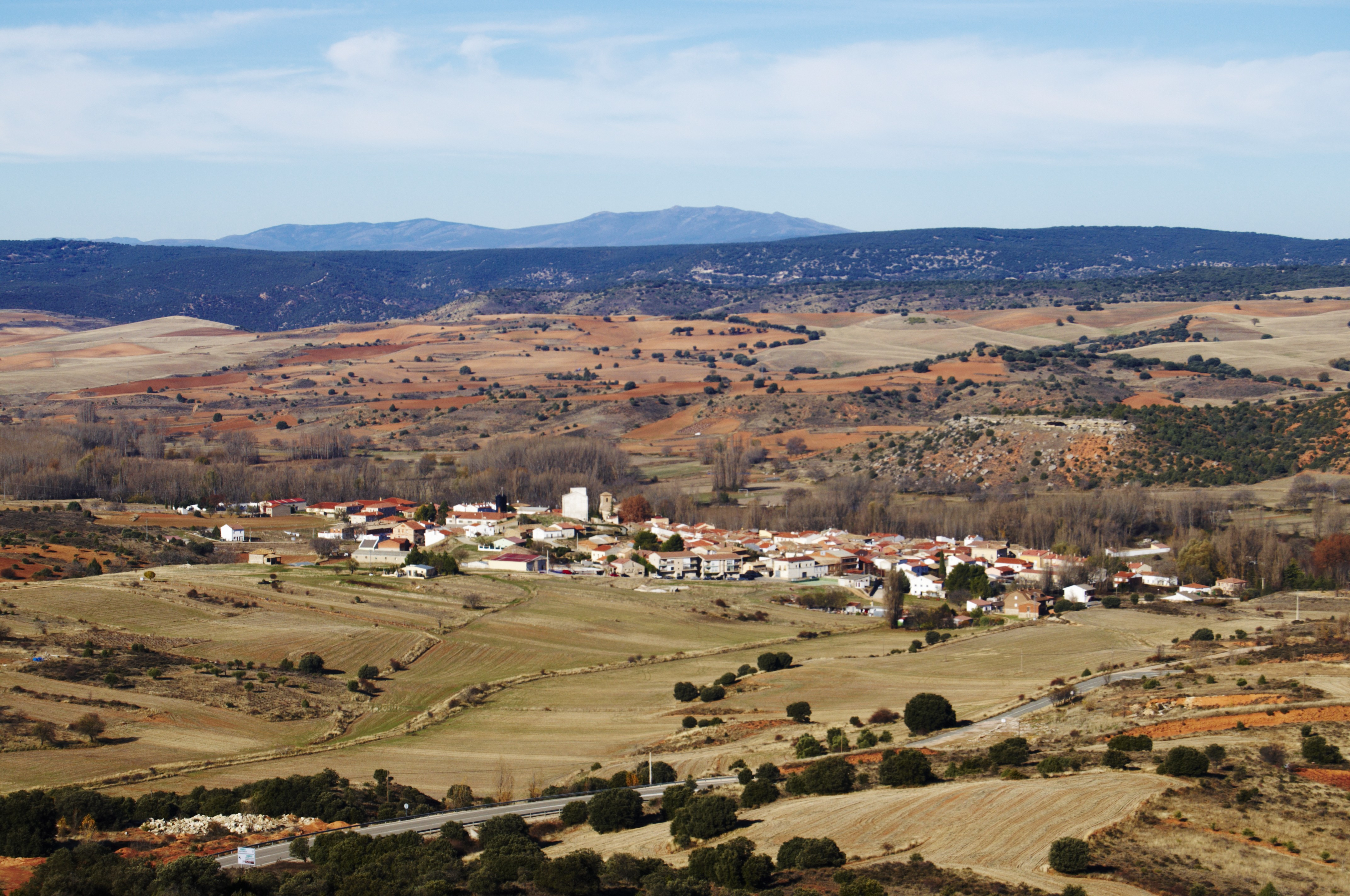 View of Mandayona, Guadalajara, Spain.